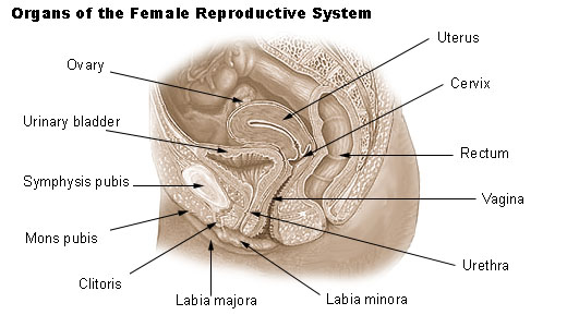 The organs of the female reproductive system.